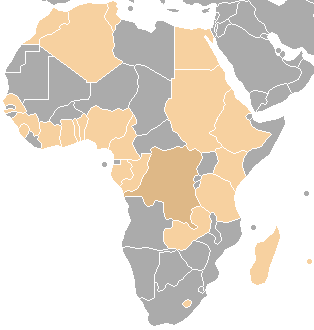 Shows teams of en:1974 FIFA World Cup qualification/Africa on a world map